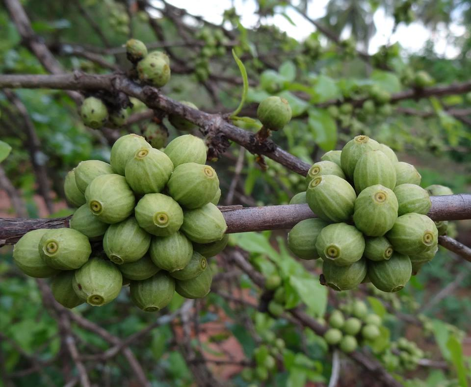 Coffea racemosa, a small plantation in Chiure village, northern Mozambique